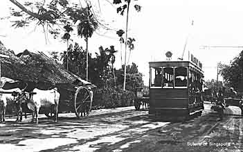 View of a Singapore tram at Upper Serangoon Road. Source for date of image is National Archives of Singapore, Media Number - Image Number: 19980005492 - 0104.